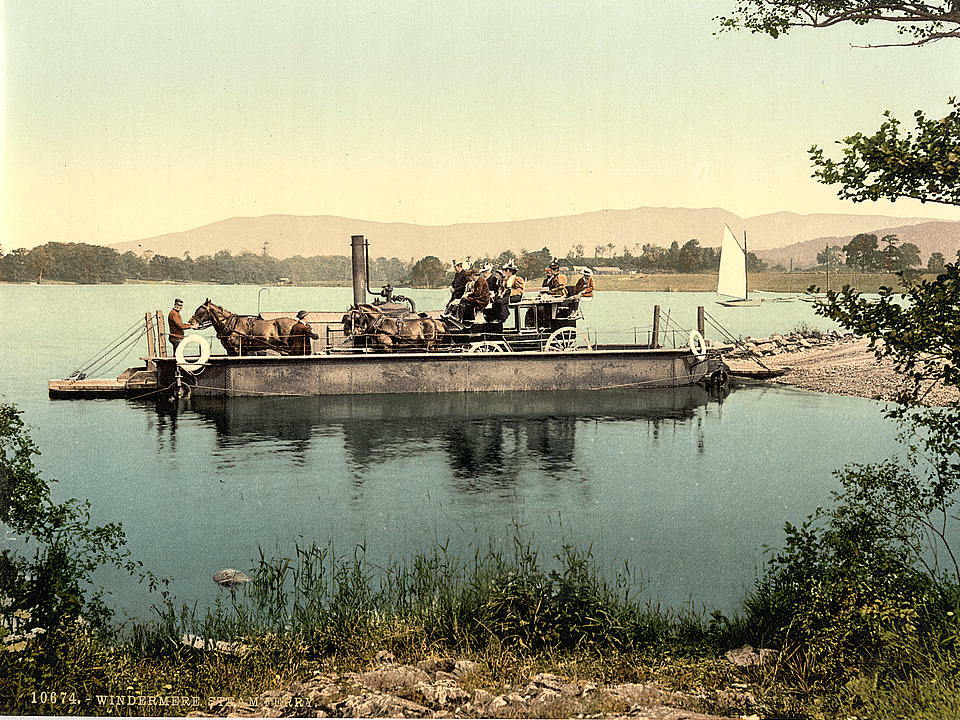 Windermere, steam ferry, Lake District, England [between ca. 1890 and ca. 1900]. 1 photomechanical print : photochrom, color. Notes: Title from the Detroit Publishing Co., Catalogue J--foreign section, Detroit, Mich. : Detroit Publishing Company, 1905. Print no. "10674". Forms part of: Views of the British Isles, in the Photochrom print collection. Subjects: England--Windermere. Format: Photochrom prints--Color--1890-1900. Repository: Library of Congress, Prints and Photographs Division, Washington, D.C. 20540 USA, Part Of: Views of the British Isles (DLC) 2002696059 More information about the Photochrom Print Collection is available at Higher resolution image is available (Persistent URL): Call Number: LOT 13415, no. 547 [item]